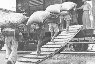 Iranian workers are forced by occupying troops to load their own requisitioned trains during the Second World War.